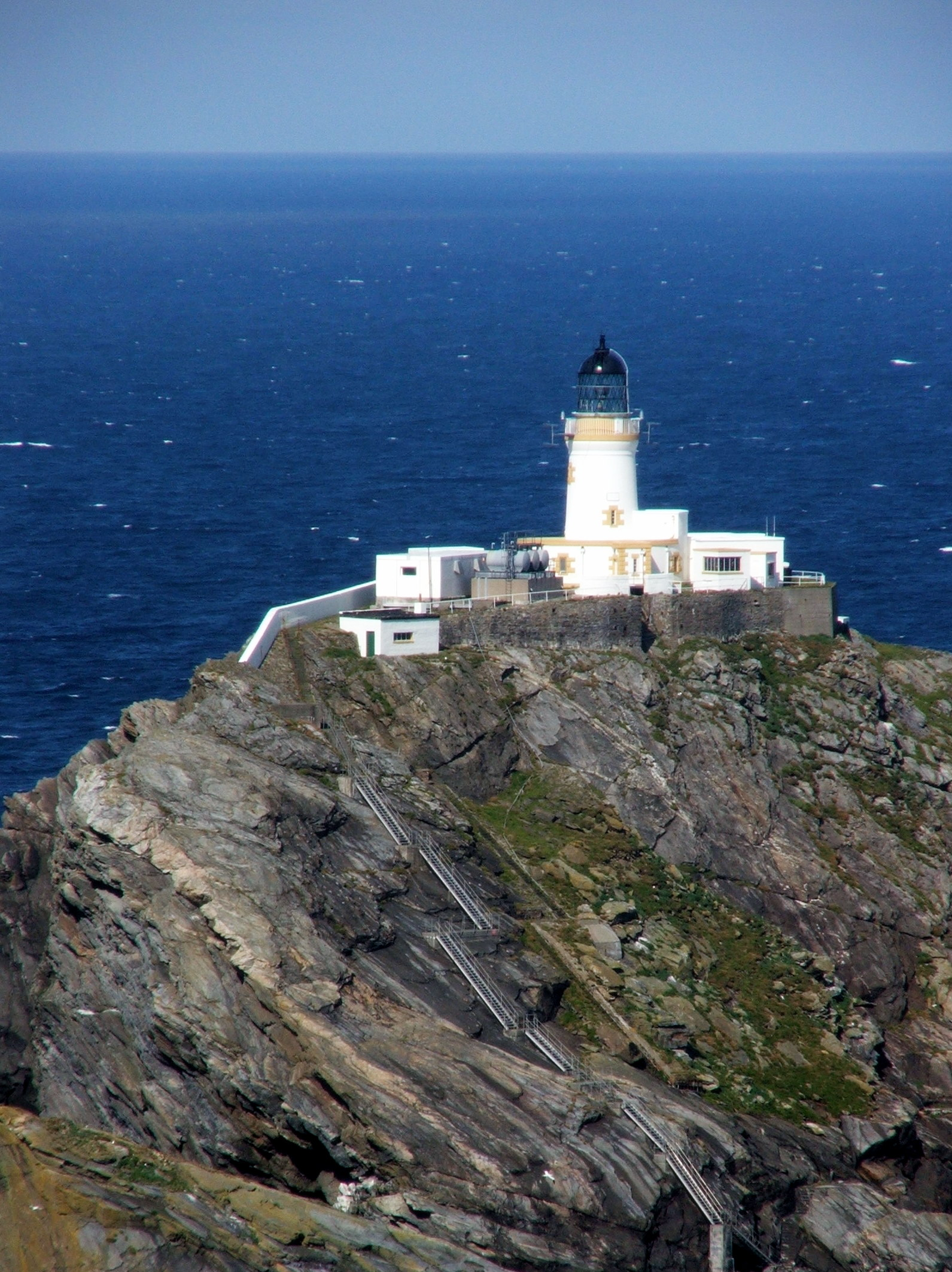 Photograph taken from Unst mainland cliffs by Verisimilus T as per description below.